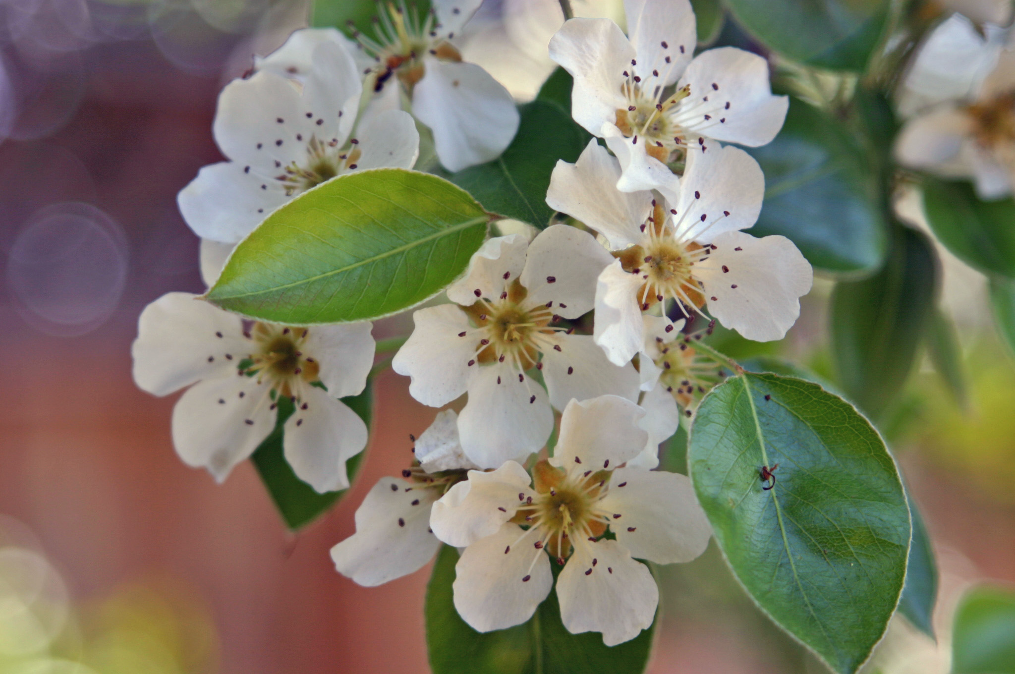 Pear blossoms, California, unknown variety